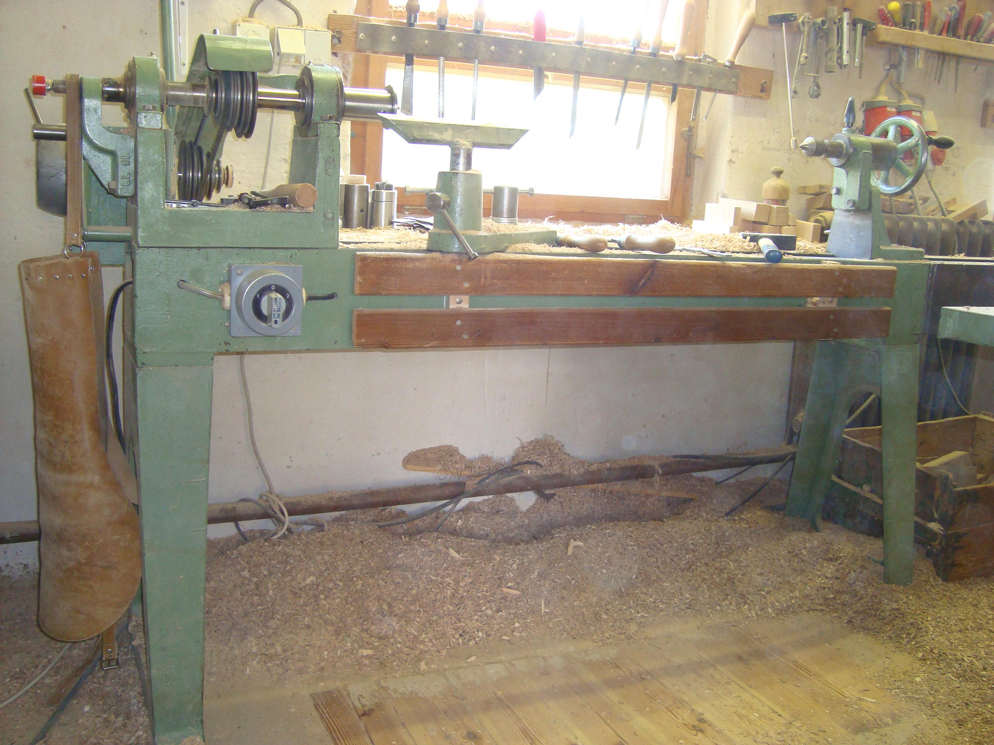 Hand rest of a wood lathe